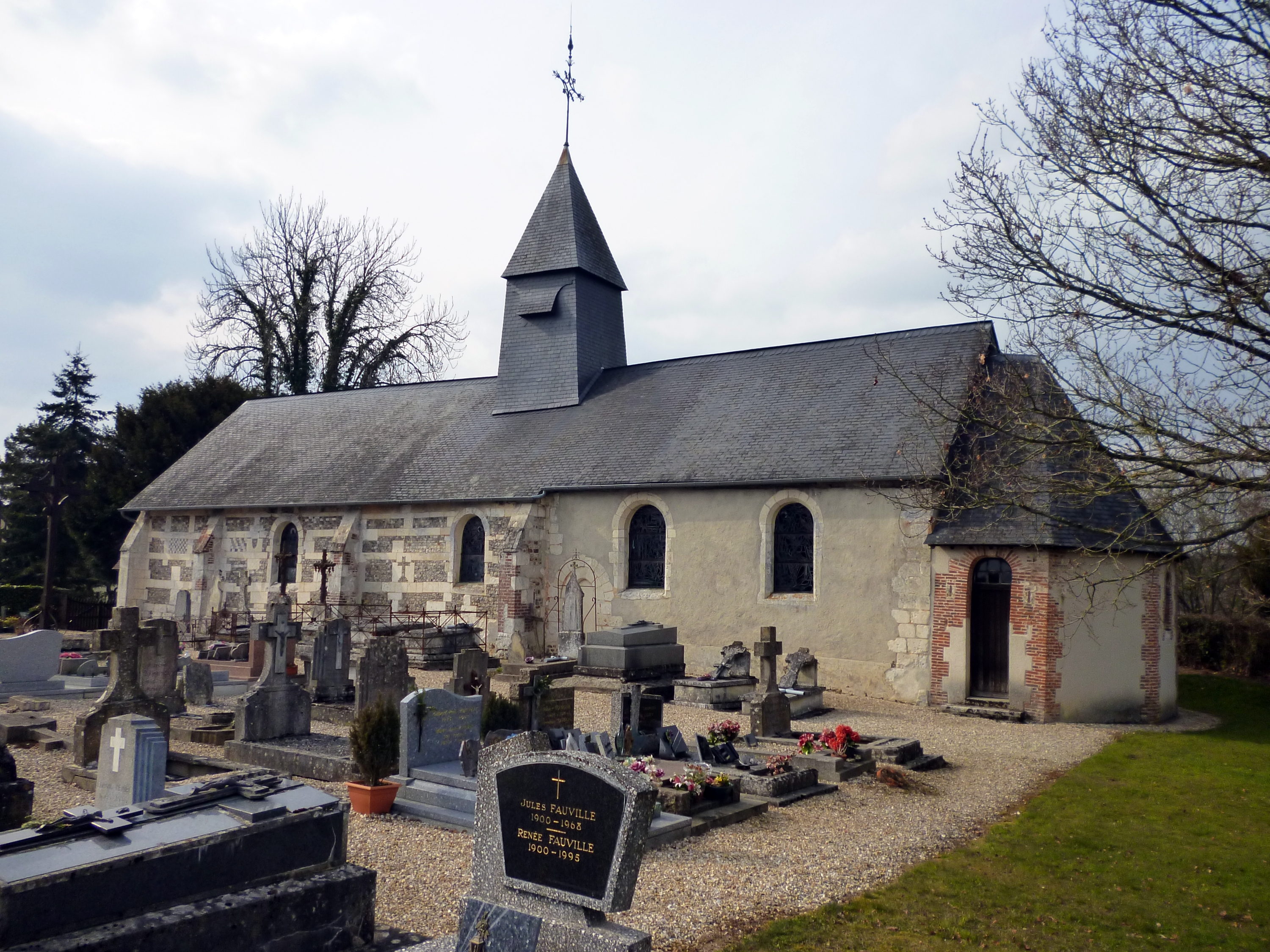 Church Saint-Benoît (12th and 16th century) of Saint-Benoît-des-Ombres (Eure, France).